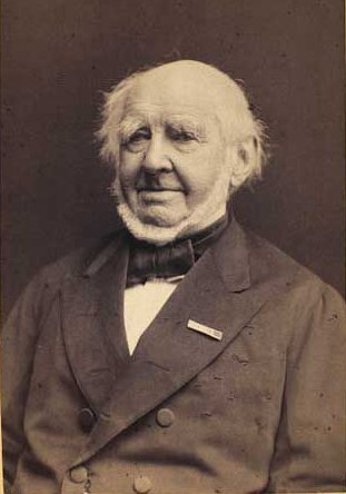 Oluf Lundt Bang (1788-1877), Danish physician